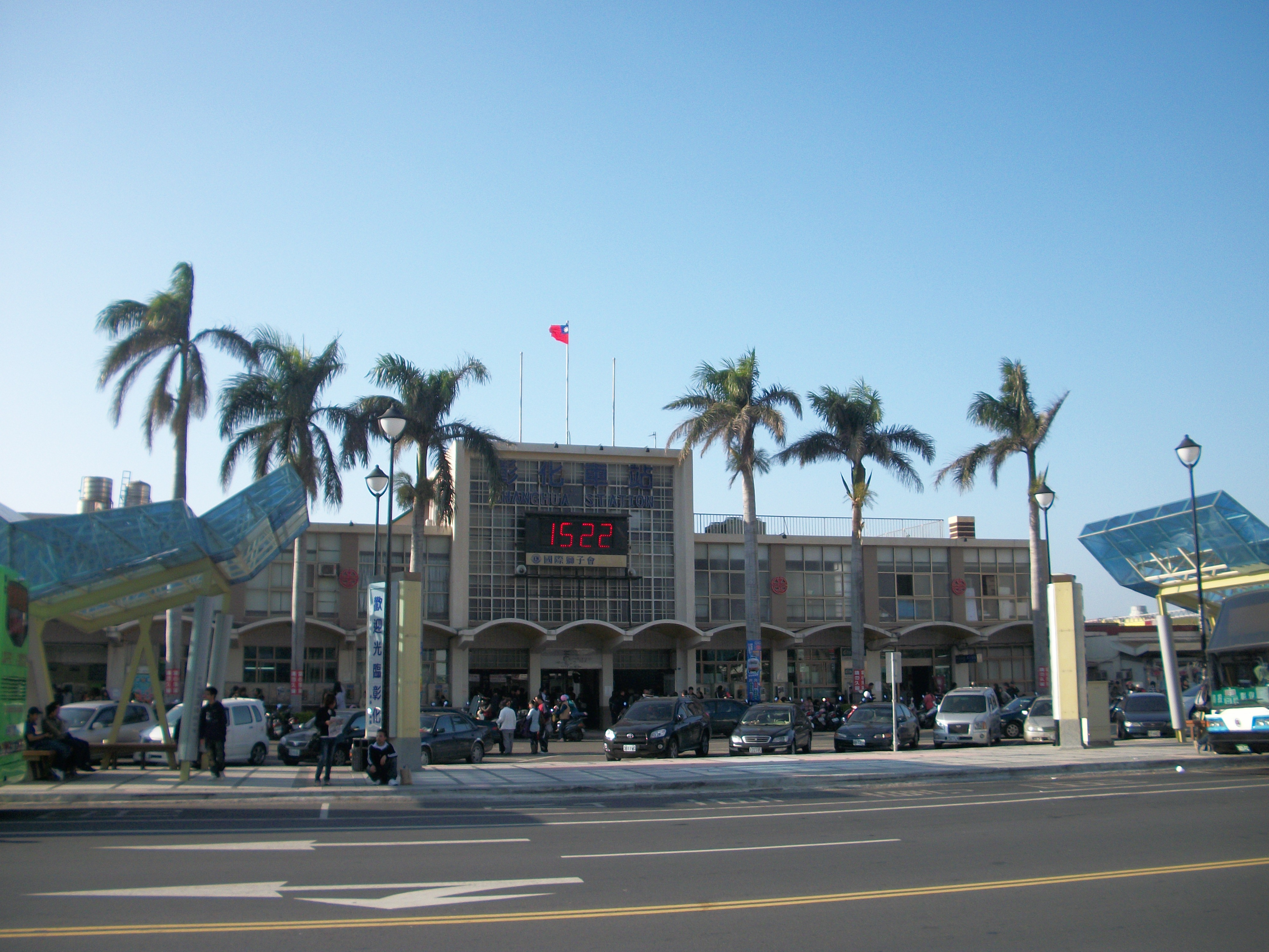 Changhua Station, Taiwan Railways Administration.中文（台灣）: 臺灣鐵路管理局彰化車站。